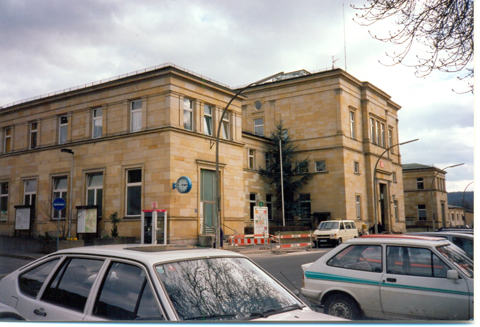 Train station of Bad Kissingen